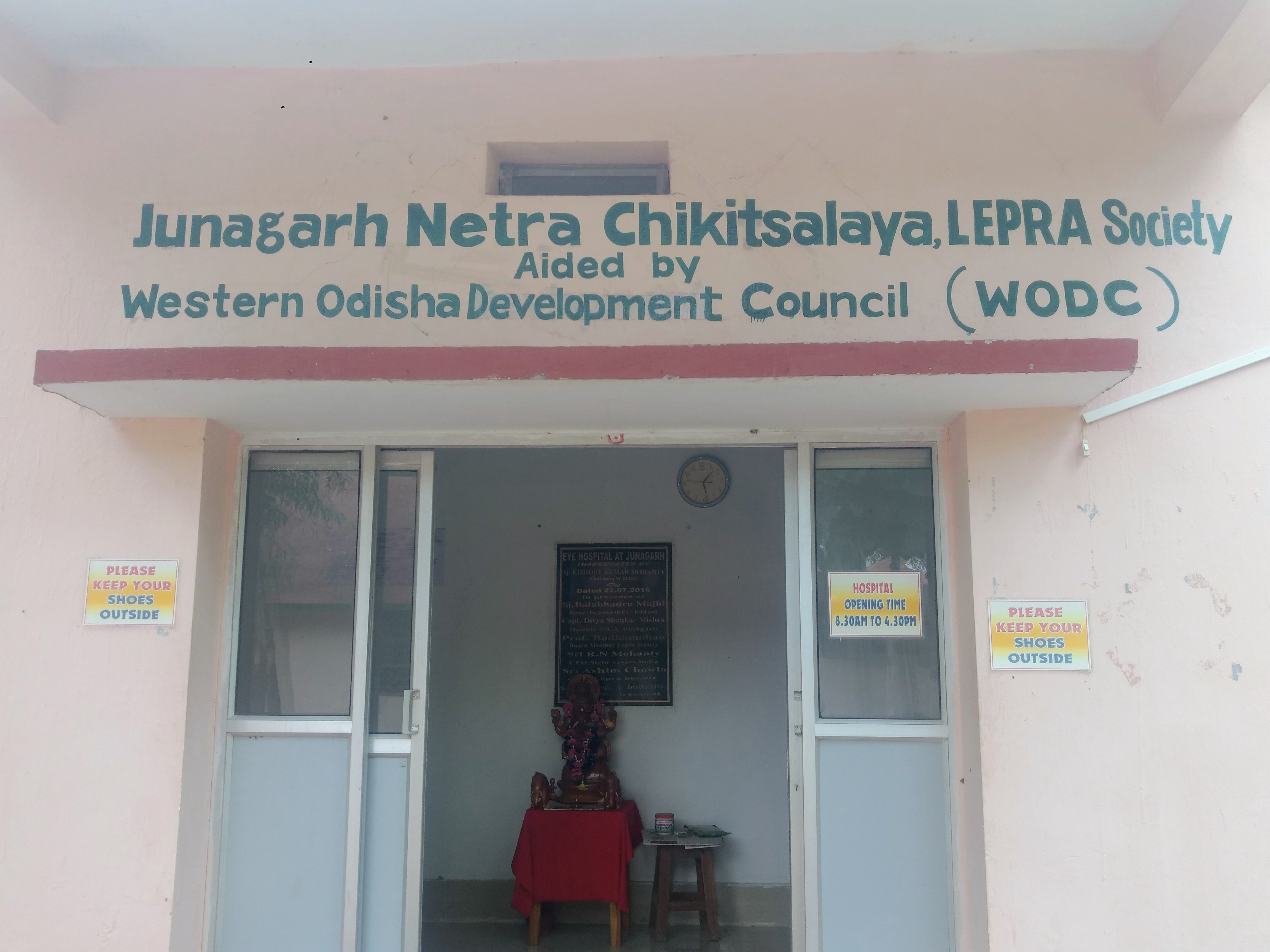 Eye hospital